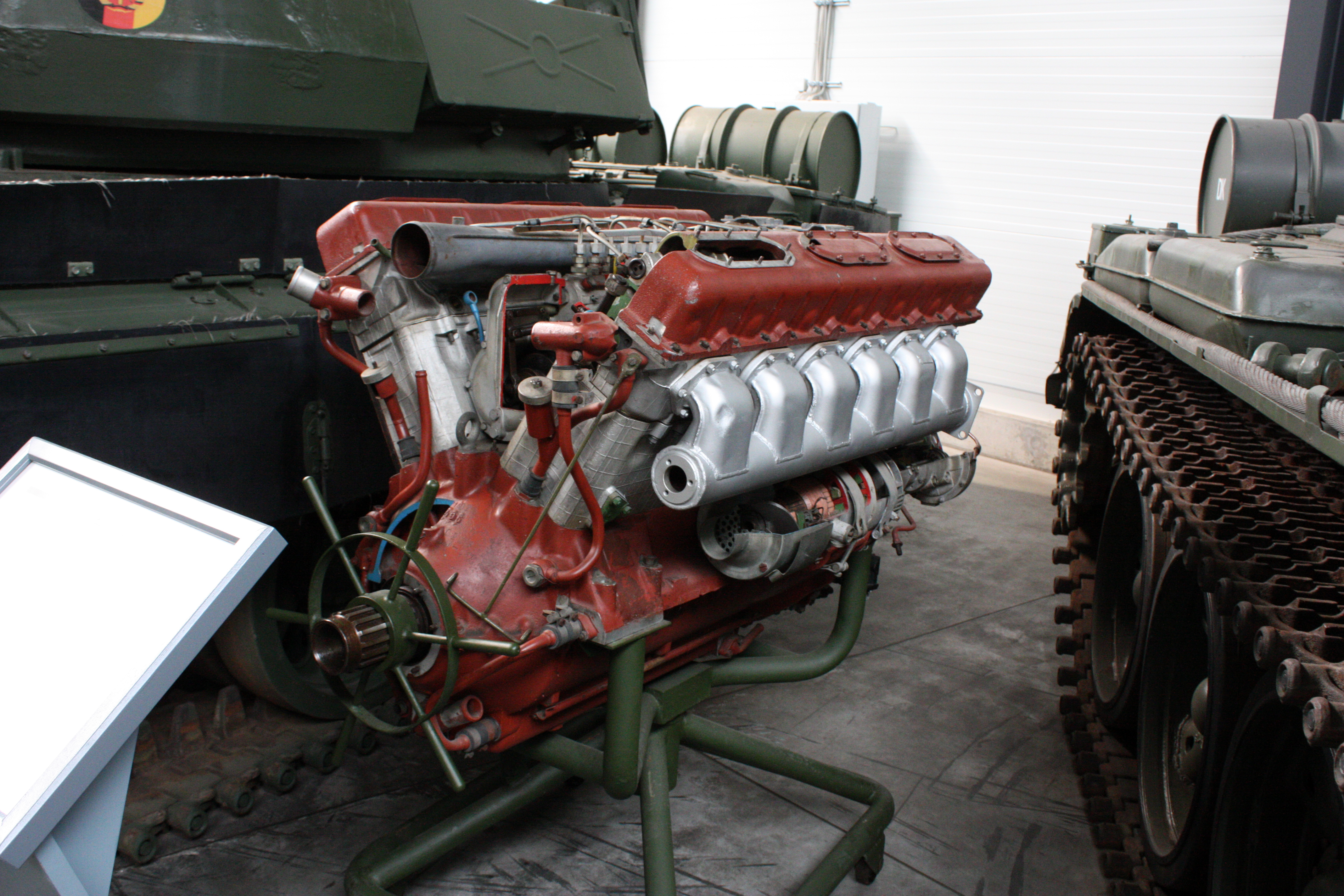 V-55 tank engine at the German Tank Museum Munster.